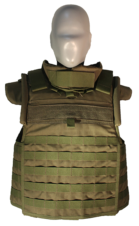 georgian made tactical vest